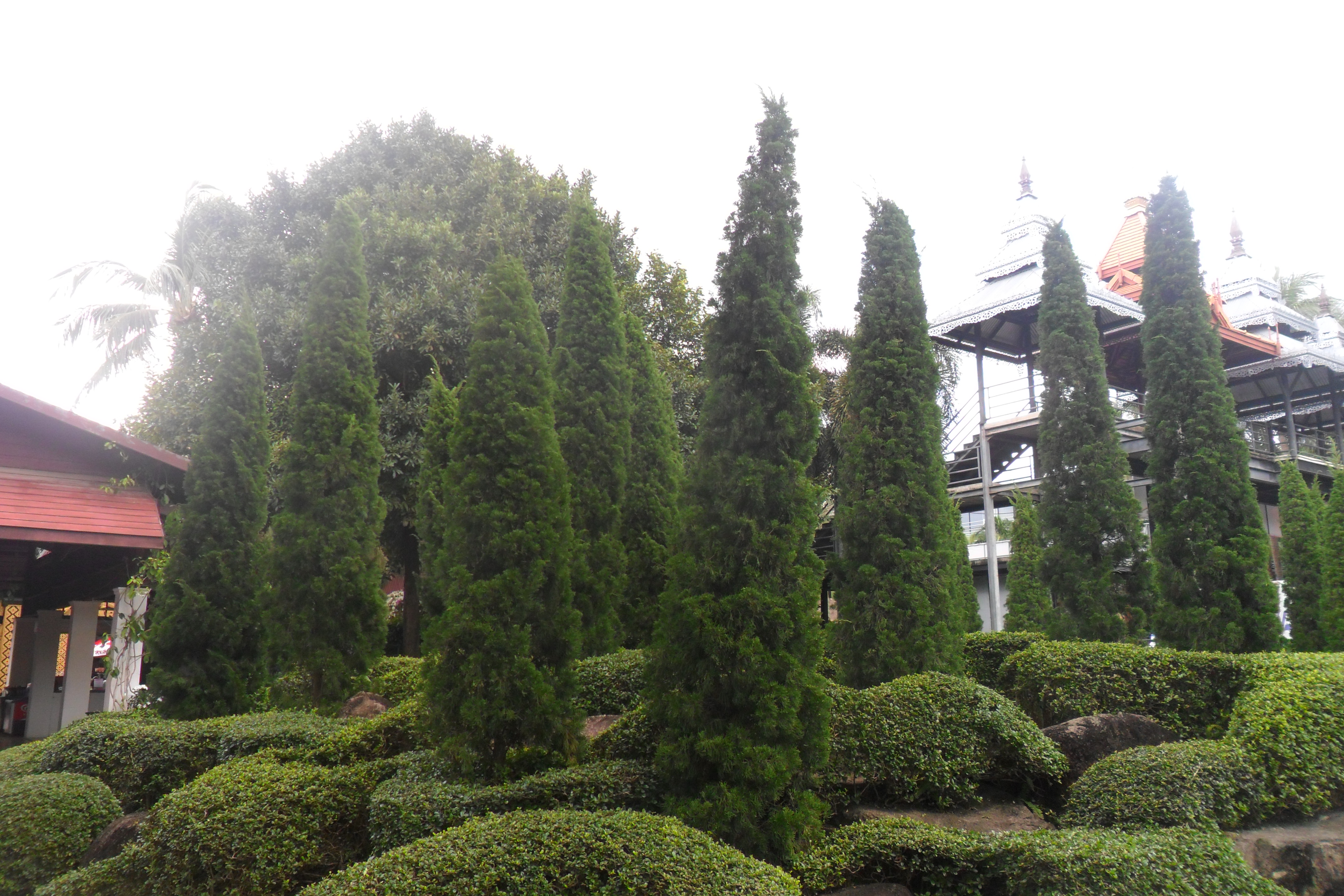 Juniperus chinensis. Nong Nooch Botanical Garden. Thailand.